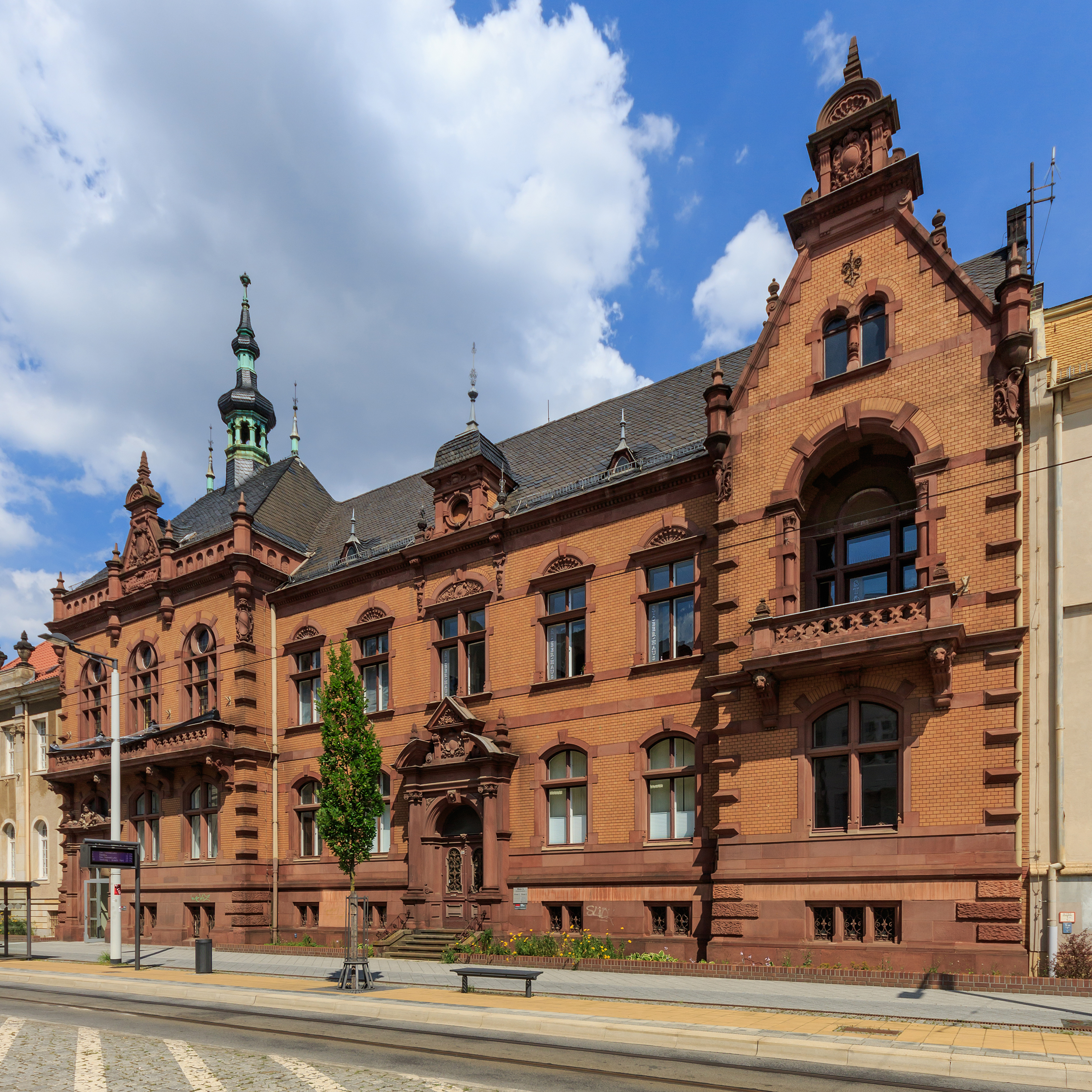 Listed building Bahnhofstr. 24 in Cottbus (Germany)